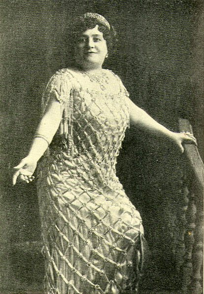 Luisa Tetrizzini.